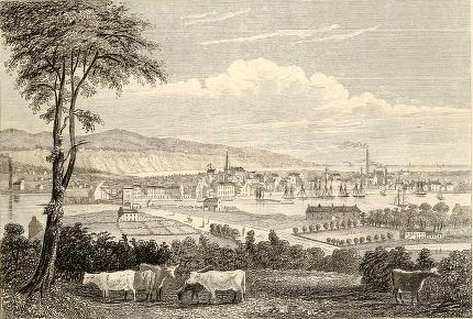 Image included in the Gazetteer of Scotland, 1838